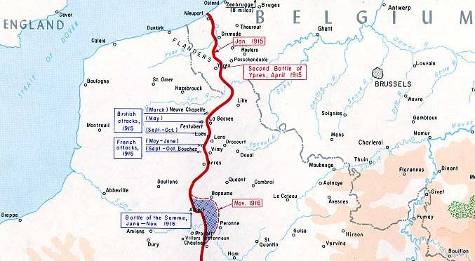 Map of the Western Front, 1915-1916.